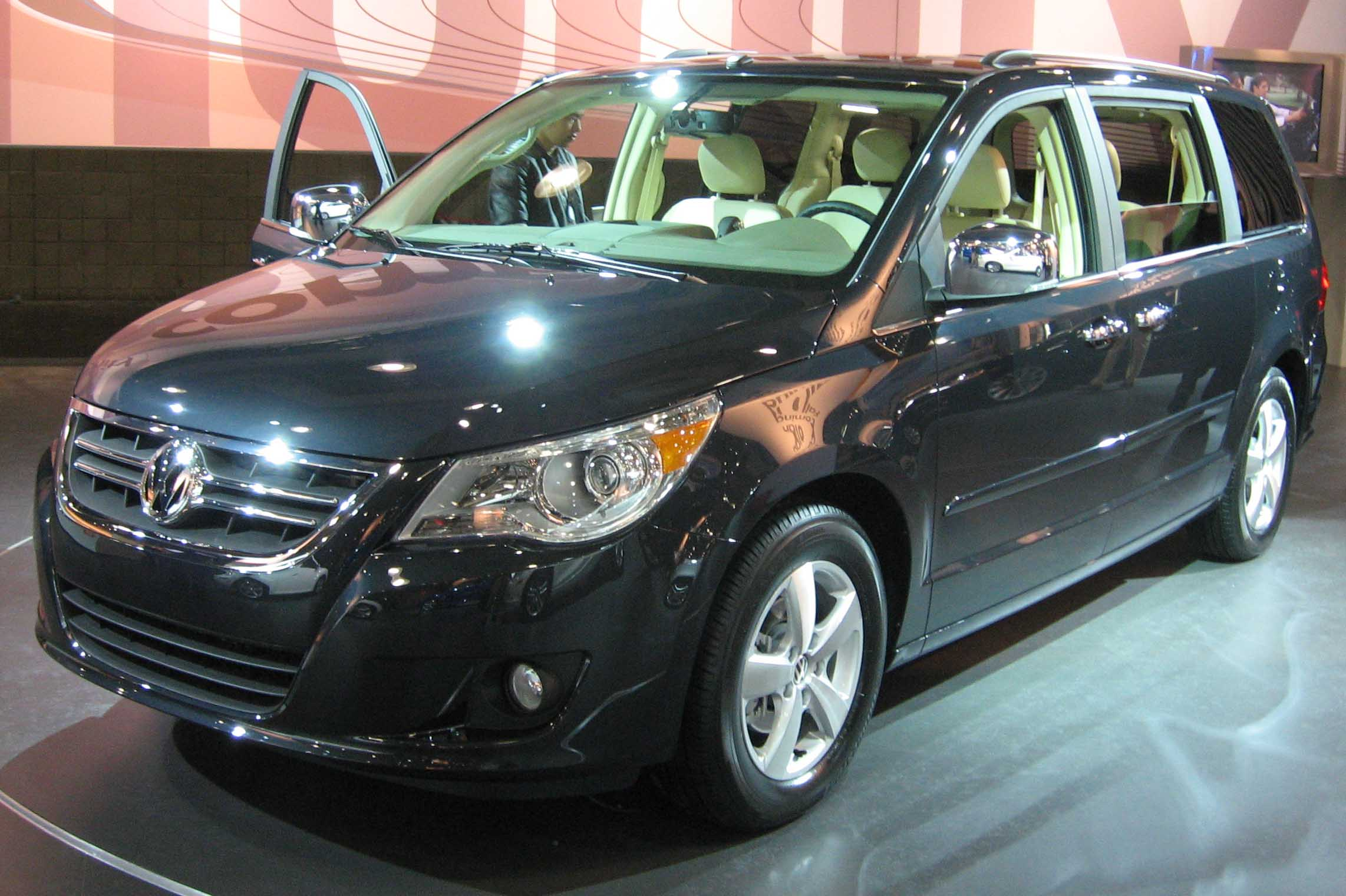 2009 Volkswagen Routan photographed at the 2008 New York Auto Show.